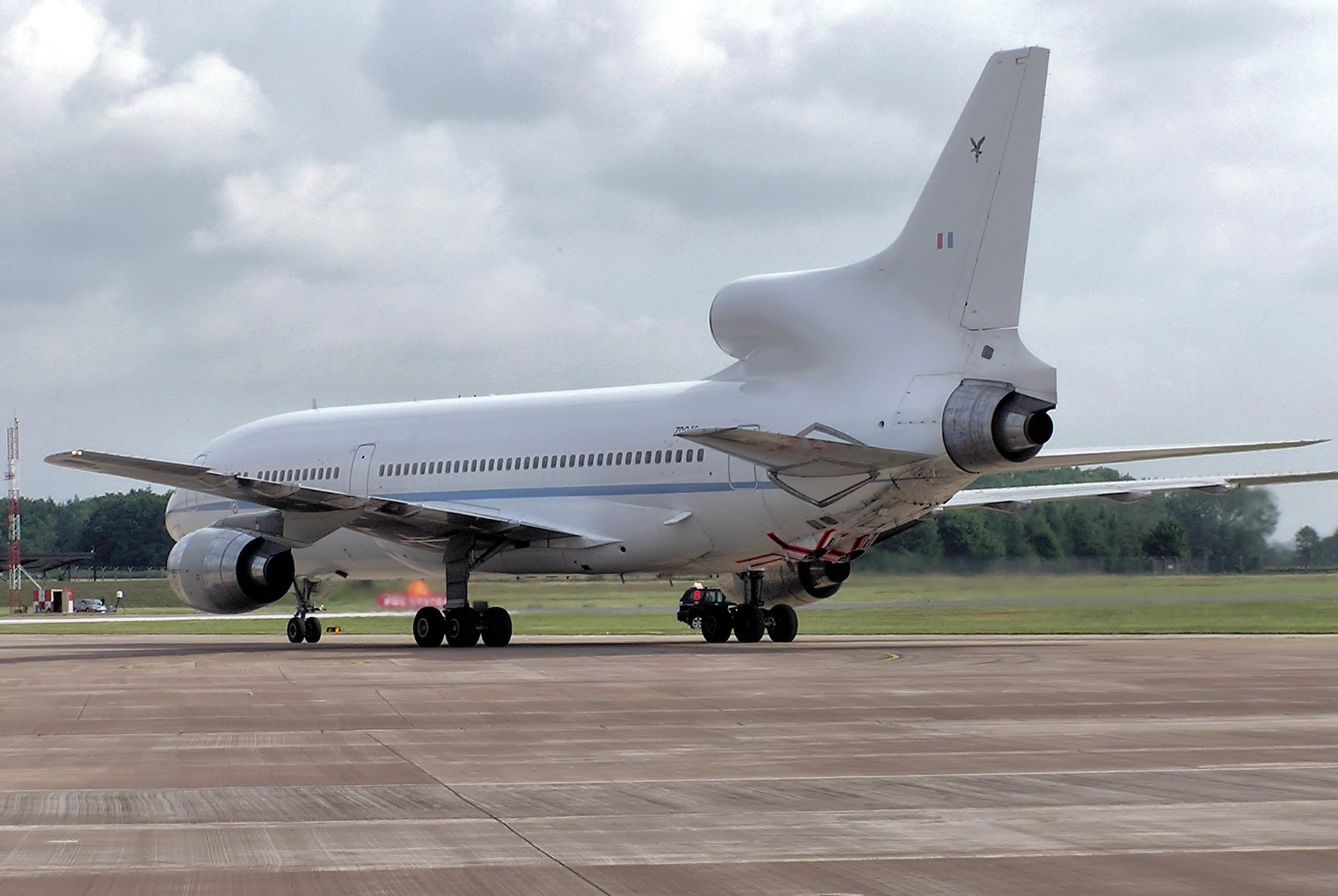 Royal Air Force Lockheed Tristar K1 (ZD949) at Fairford Air Show, Gloucestershire, England.